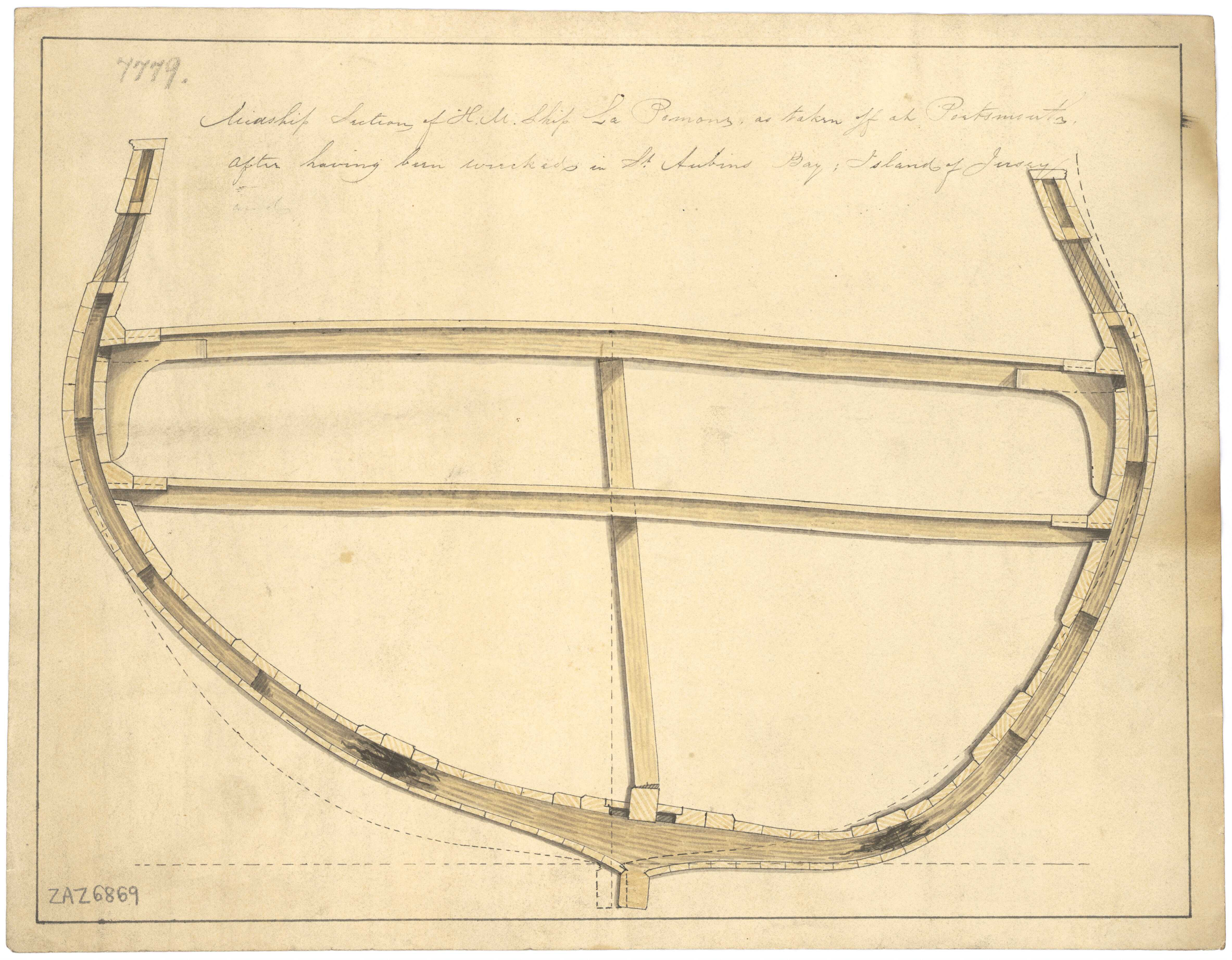 Pomone (1794) No scale. Plan showing the midship section for the Pomone (1794), a 44 gun, Fifth Rate, Frigate, as taken off at Portsmouth Dockyard. The plan illustrates the damaged sustained to the hull framing after having been wrecked at St. Aubin's Bay, Jersey. NMM, Progress Book, volume 5, folio 582 states that 'Pomone' (1794) arrived at Portsmouth Dockyard on 22 October 1802 and was docked on 10 November 1802. She was taken to pieces on 13 December 1802. section, midship